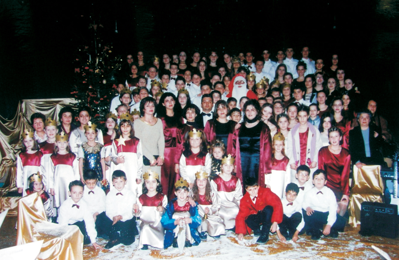 New Year's music concert